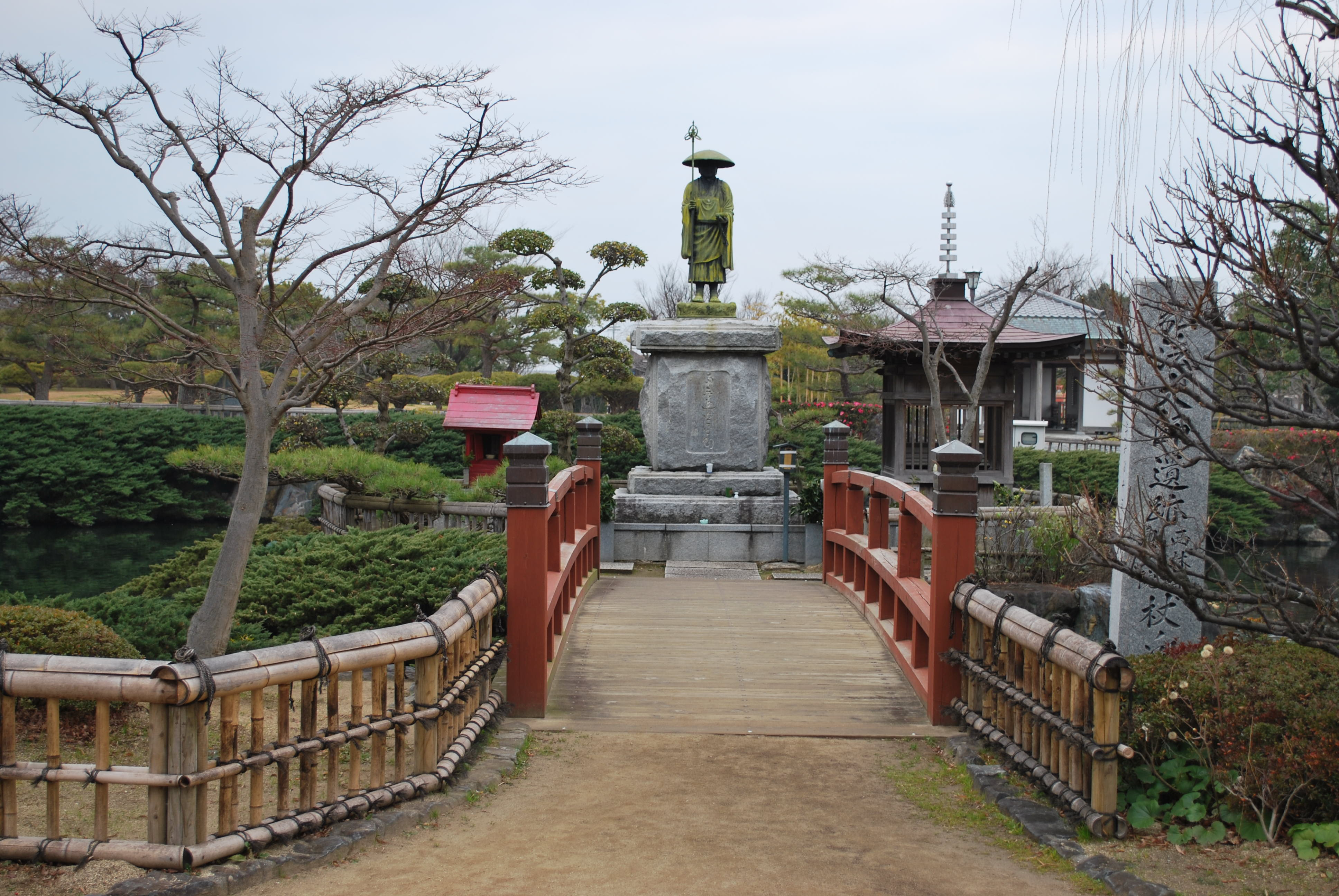 Shikoku Pilgrimage 48th Fudasho Okunoin "Jō-no-fuchi"